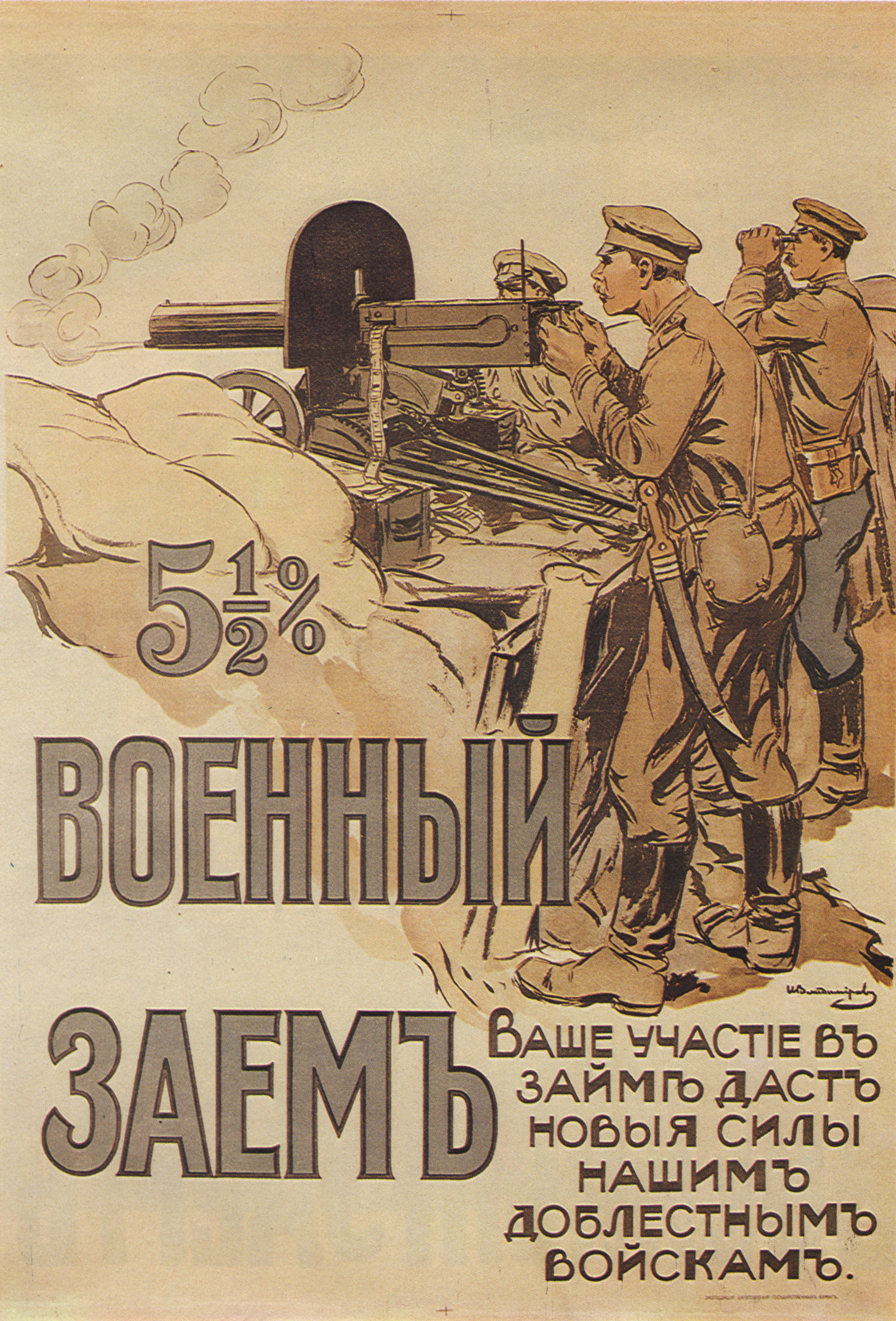 poster